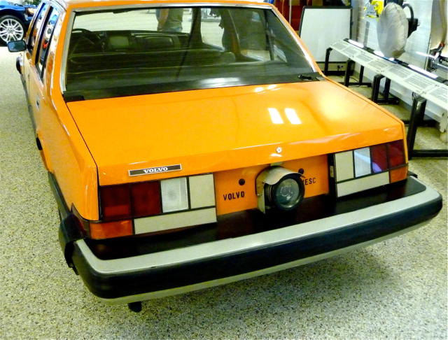 Volvo VESC, concept car, 1972, Volvo Museum, Arendal, Göteborg, Sweden